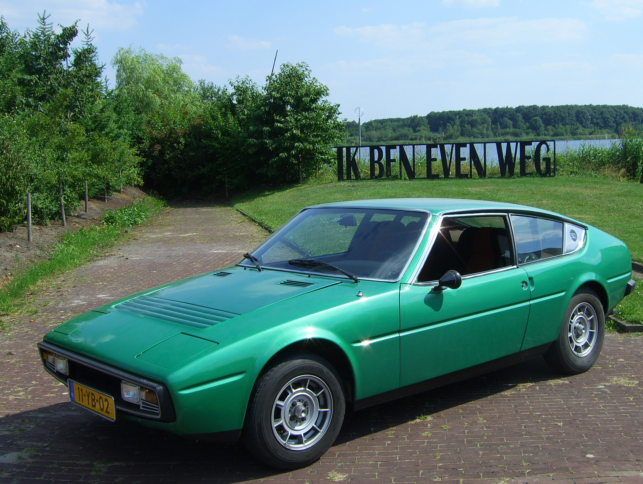 Matra-Simca Bagheera, model from 1973-1976